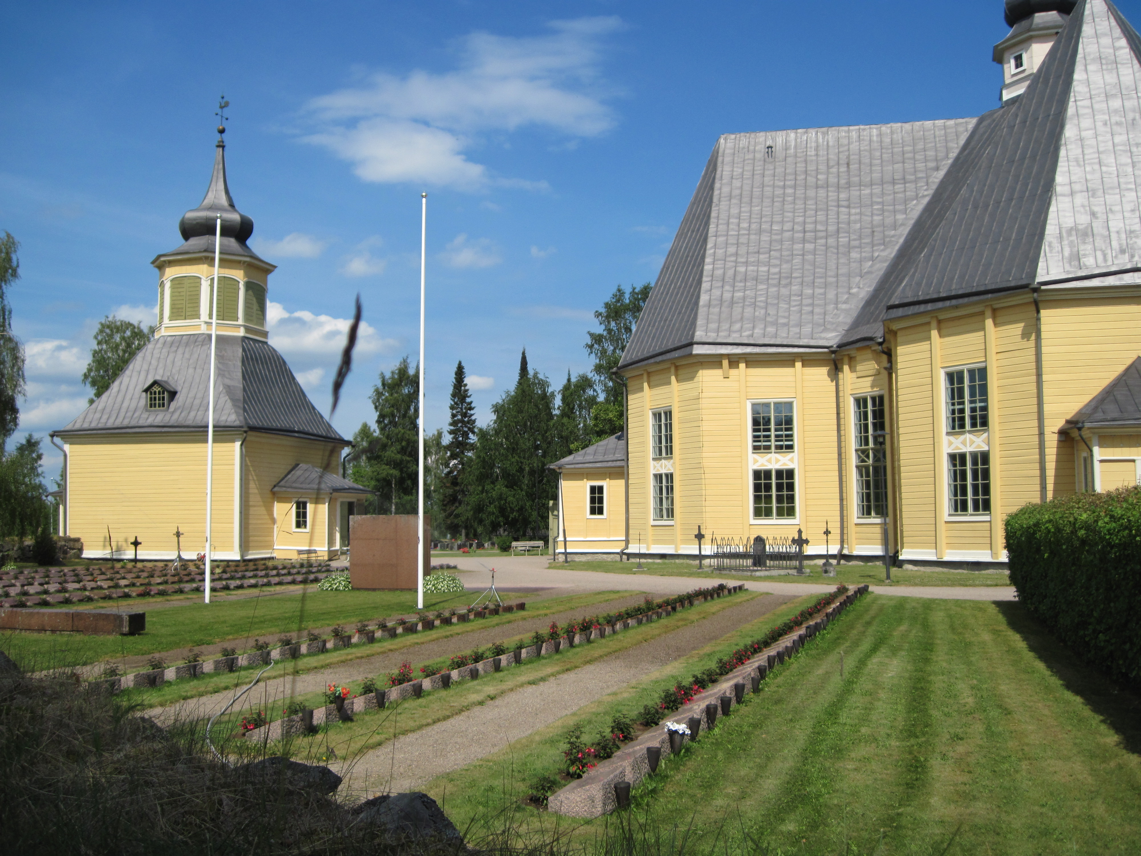 Ruovesi Church and military cemetary in Ruovesi, Finland